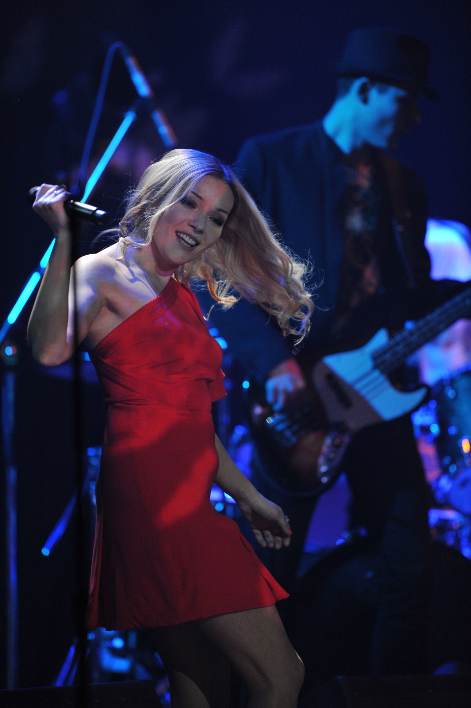 Elena Neklyudova with the new concert program.